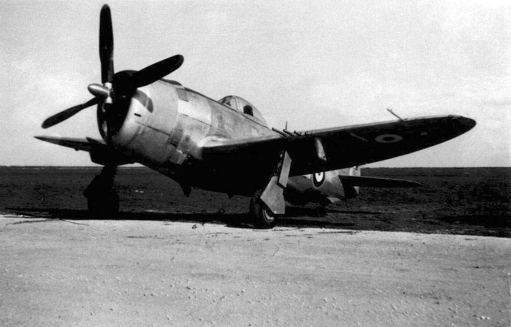 A French Armée de l'air Republic P-47D Thunderbolt of Escadron de Chasse 3/3 "Ardennes". EC 3/3 received 25 P-47Ds in October 1944 and flew them until bein disbanded at Koblenz, Germany, in March 1946.